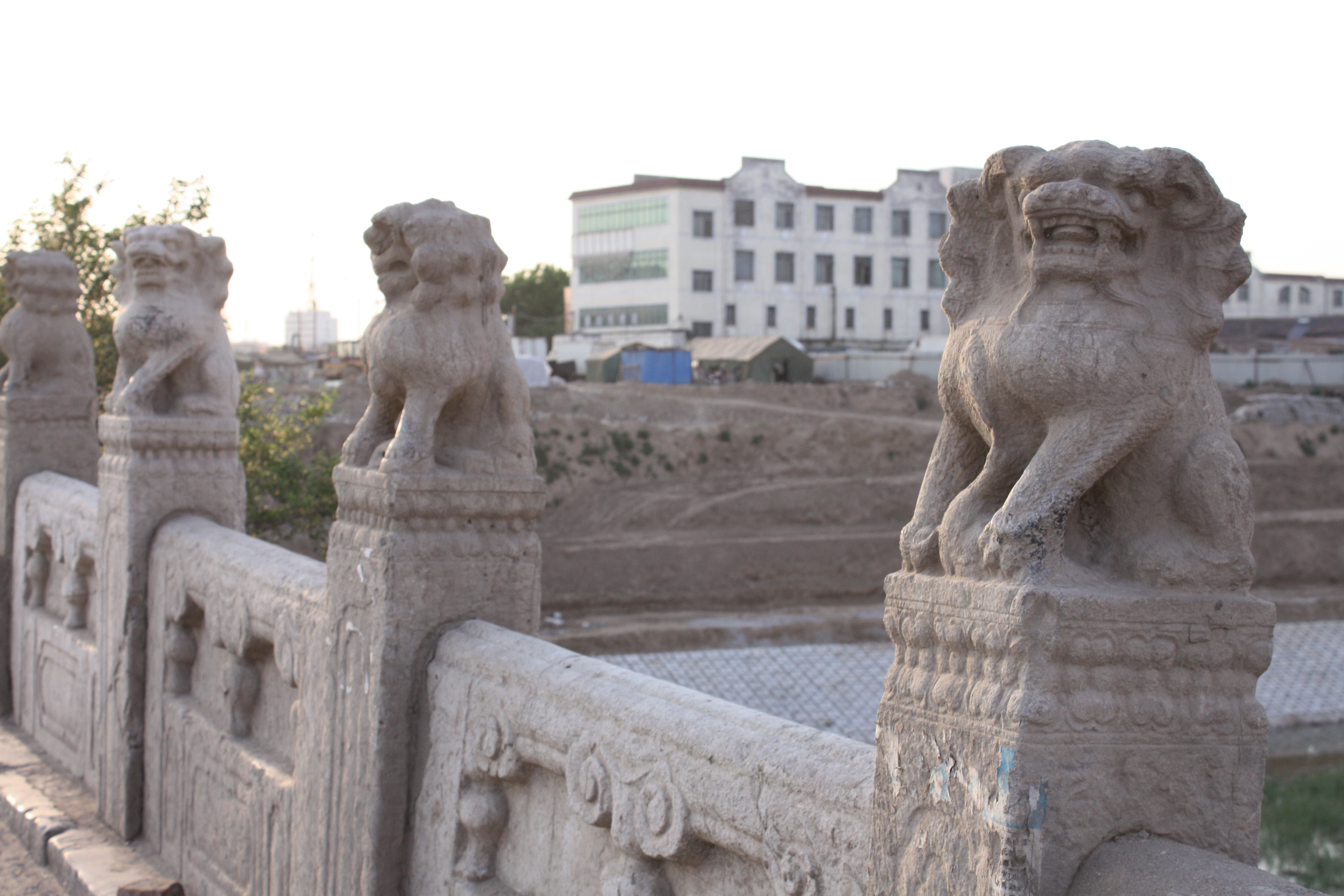 Unprotected old bridge in old town part of the City of Hengshui.